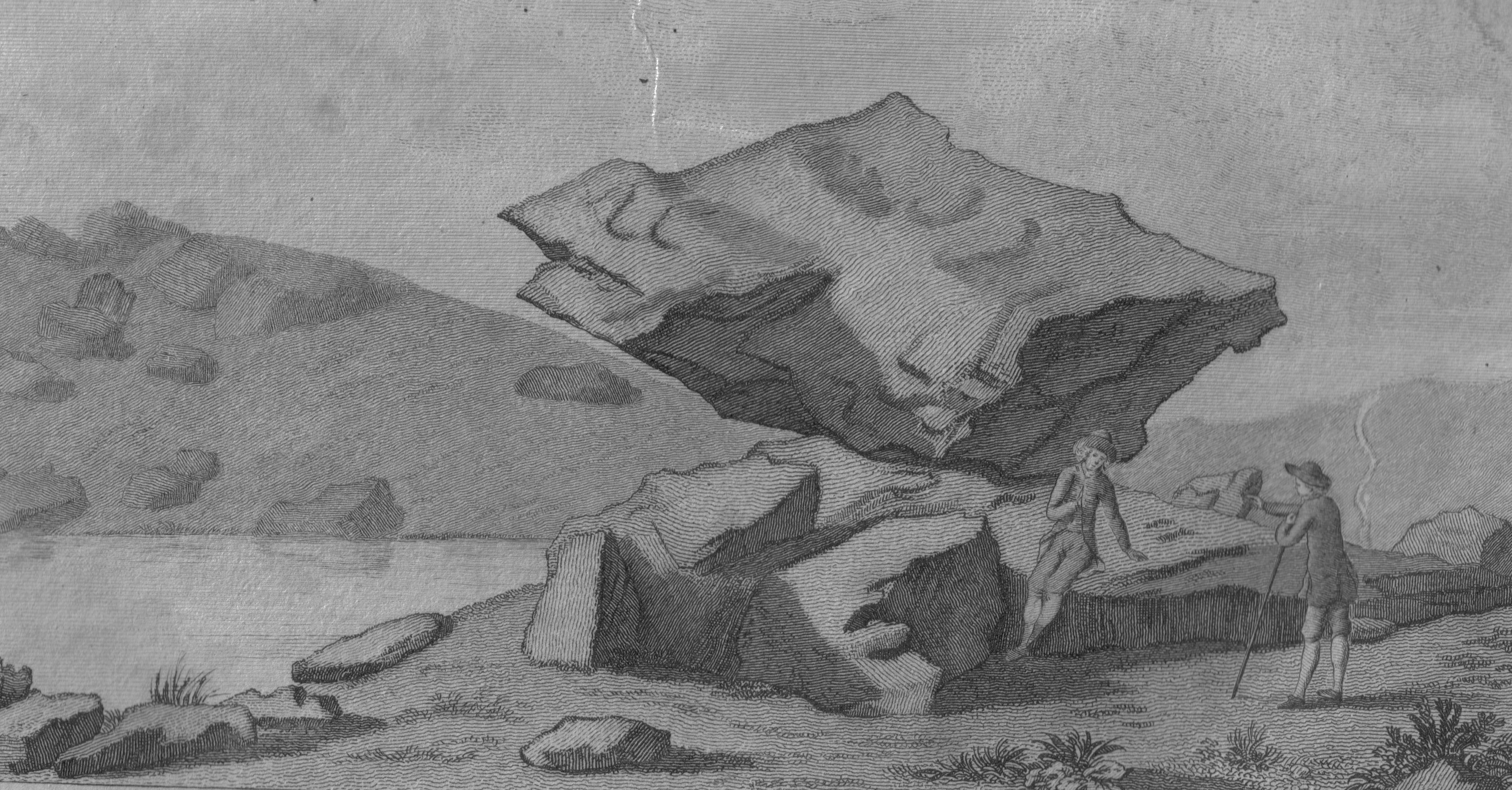 The Logan or Rocking Stone on the Rhinns of Kells in Galloway, Scotland